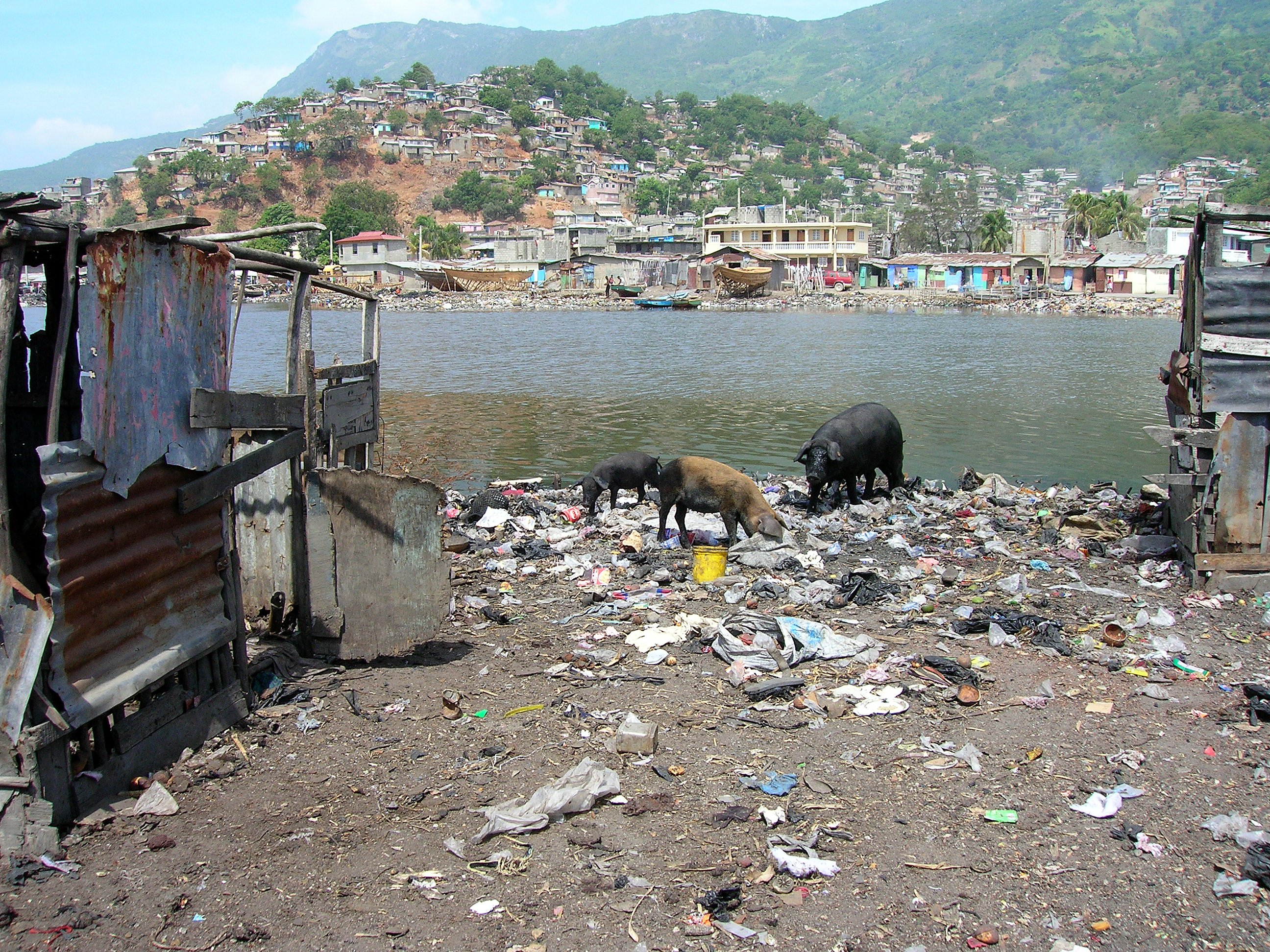 Indiscriminate waste dumping and open defecation in the area of Shadda, Cap-Haitien, Haiti. In the background, the areas of EPPLs (seaside) and Laborie (hill).